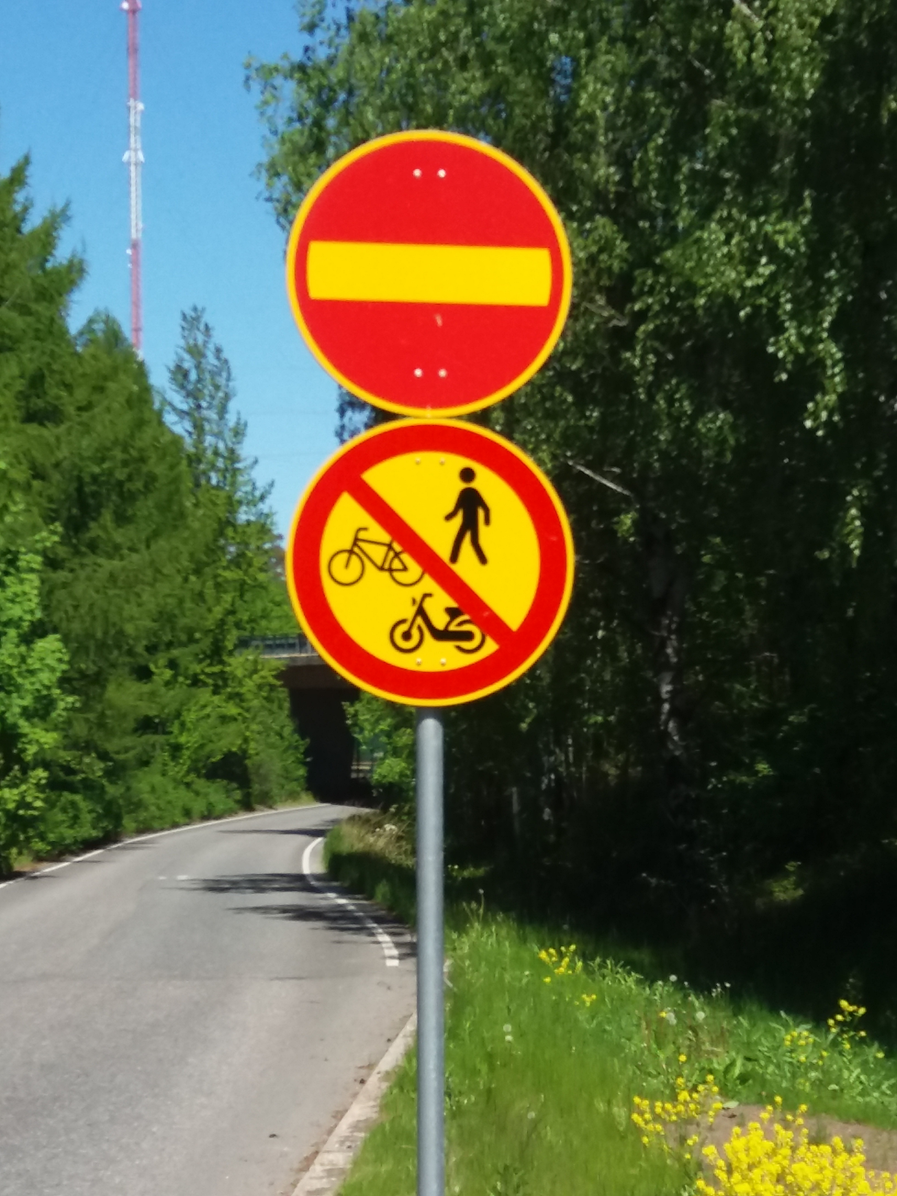 A no entry road sign and a brand new no pedestrians, bicycles or mopeds sign in Herttoniemi, Helsinki, Finland. Taken on 3 June 2020, and the new sign was introduced two days earlier.